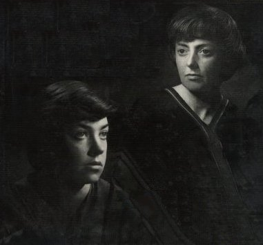 María Elena Walsh (left) y Leda Valladares (right). Leda and Maria Dúo. Argentina. Folk singers